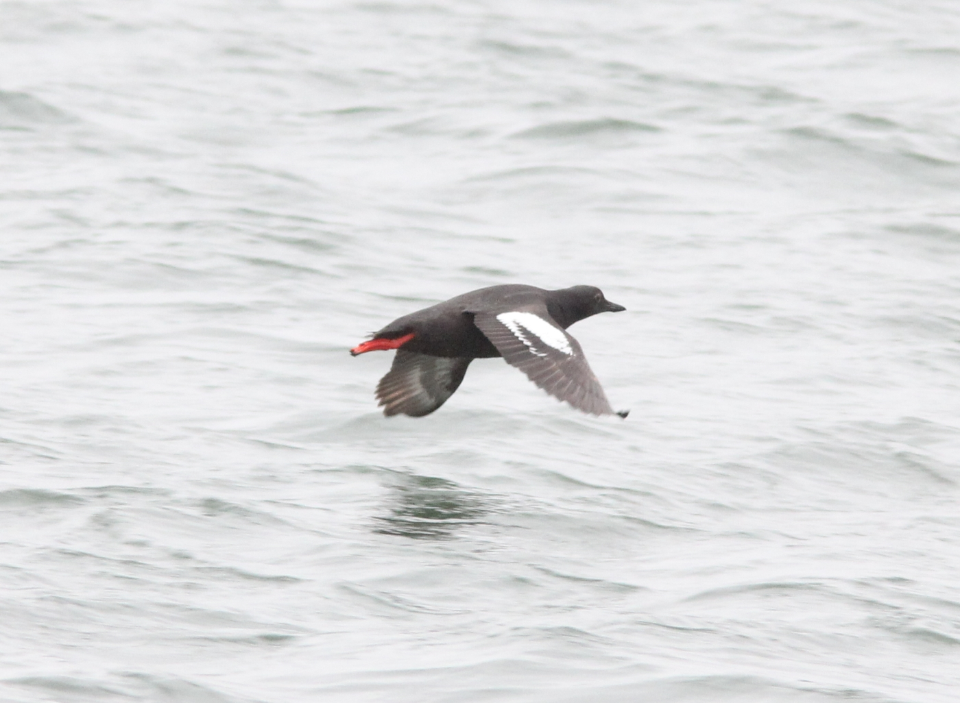 Pigeon Guillemot, Newport OR, 16 July 2013